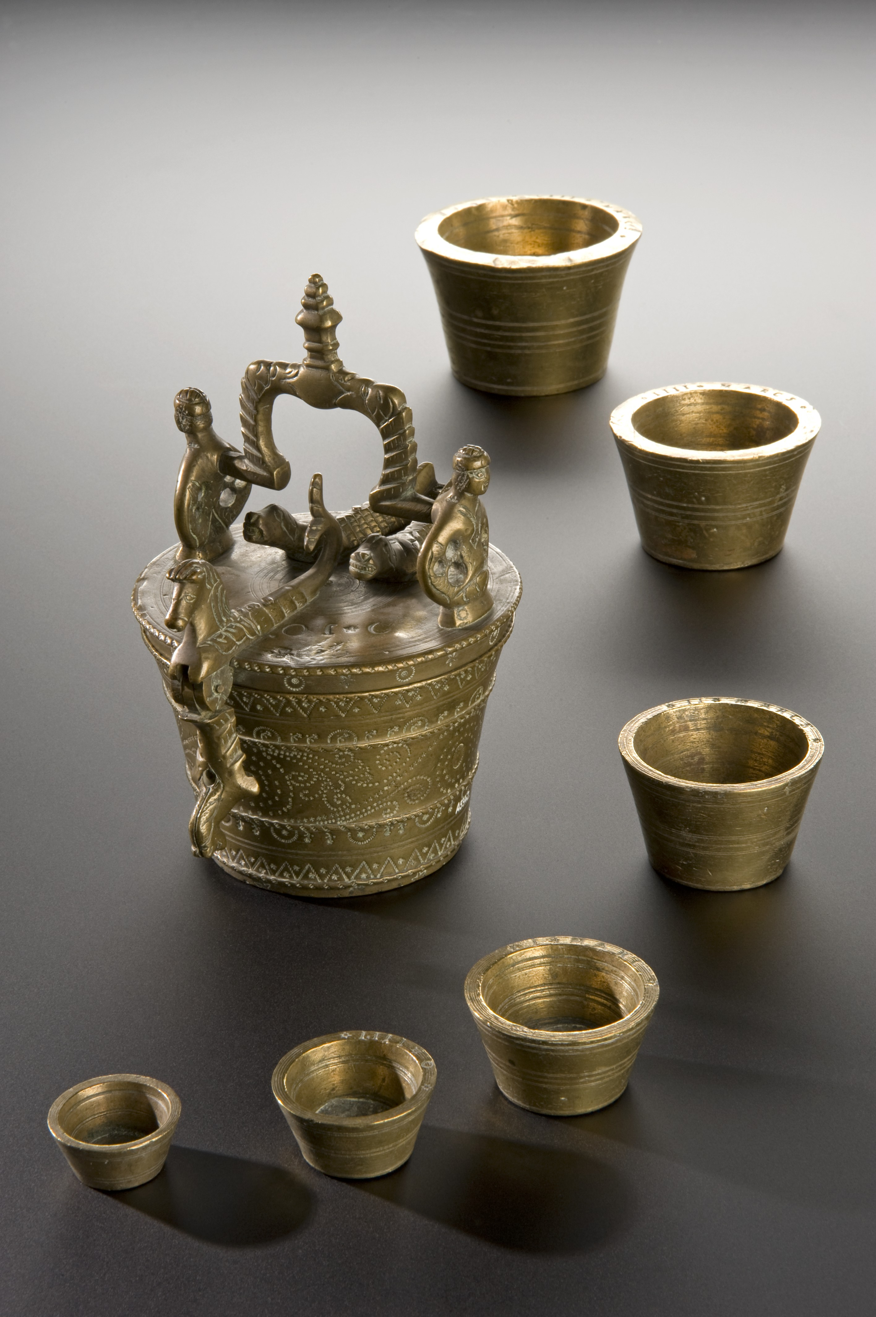 Set of 17th century nested brass weights. Weights arranged outside of the container, graduated matt black perspex background. Wellcome Images